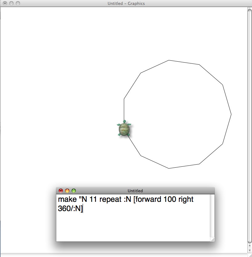 Turtle Graphics